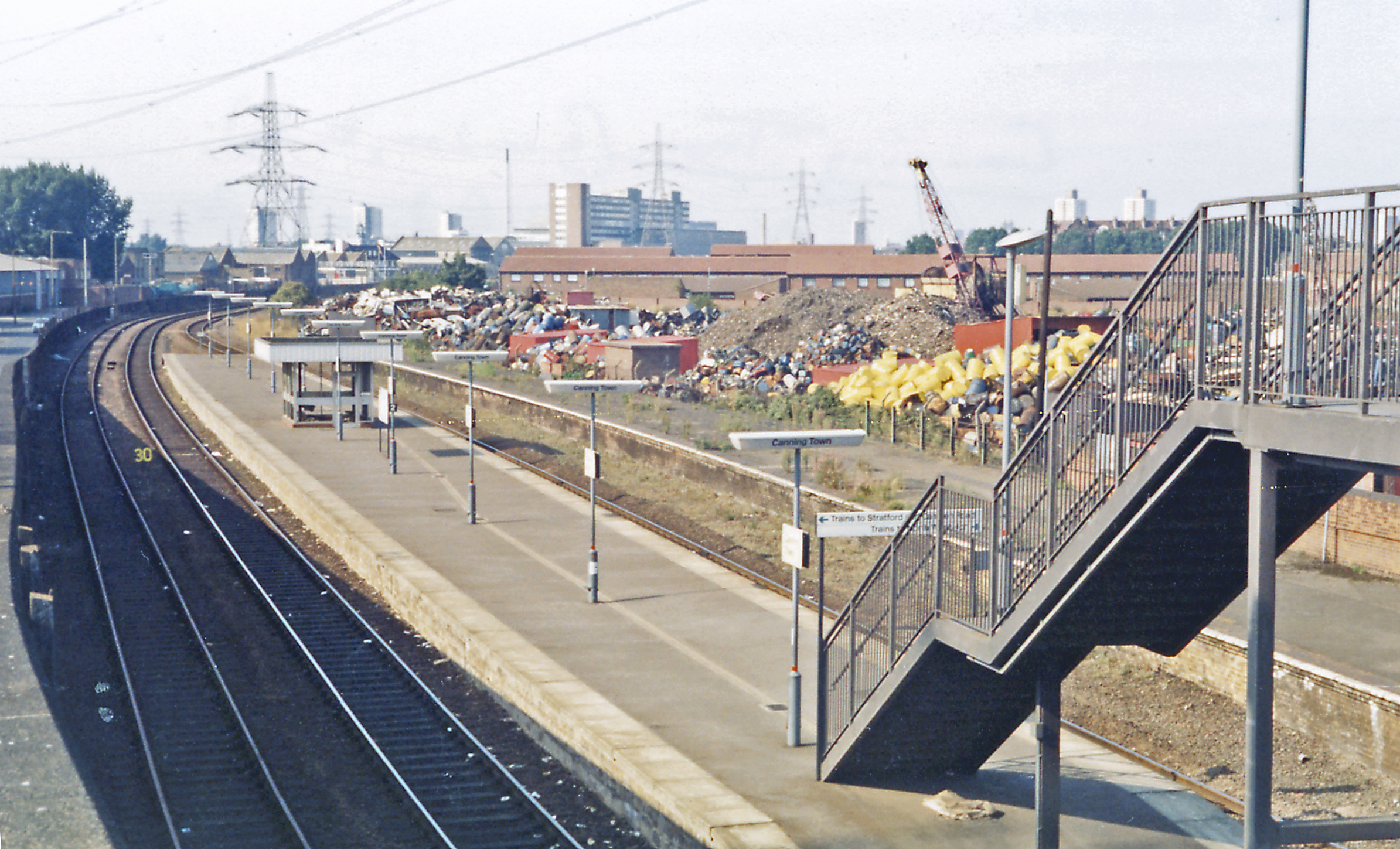 Canning Town station, 1983. View NW, towards Stratford on the ex-GE North Woolwich branch. By this time there was little goods traffic to the Docks remaining, but the passenger service still ran on the original line to North Woolwich and continued until 9/12/06. On 6/3/94 the Docklands Light Railway opened a new station nearby and this station was closed 6/6/96 - 5/3/98, and on 14/5/99 the Underground (Jubilee Line Extension) station was opened here. (See also TQ4080 : Up platform of Custom House (Victoria Dock) station, 1983).